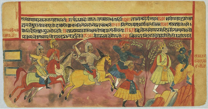 Folio Illustrating Episodes from the Jarasandha Story, 1625-50 India: Rajasthan, Bikaner, 1625-1650 Opaque watercolor on paper image (a): 3-3/4 x 10-5/8 in. (9.5 x 27.0 cm); sheet: 6 x 11-3/8 in. (15.2 x 28.9 cm) Norton Simon Museum, Gift of Ramesh and Urmil Kapoor P.2001.13.3ab © 2012 Norton Simon Museum